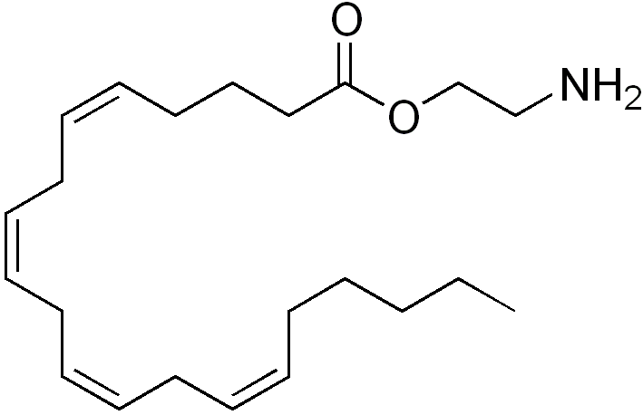 chemical structure of virodhamine